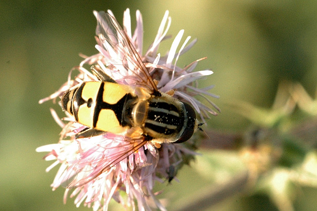 Picture taken in Commanster, Belgian High Ardennes . Species: Helophilus hybridus